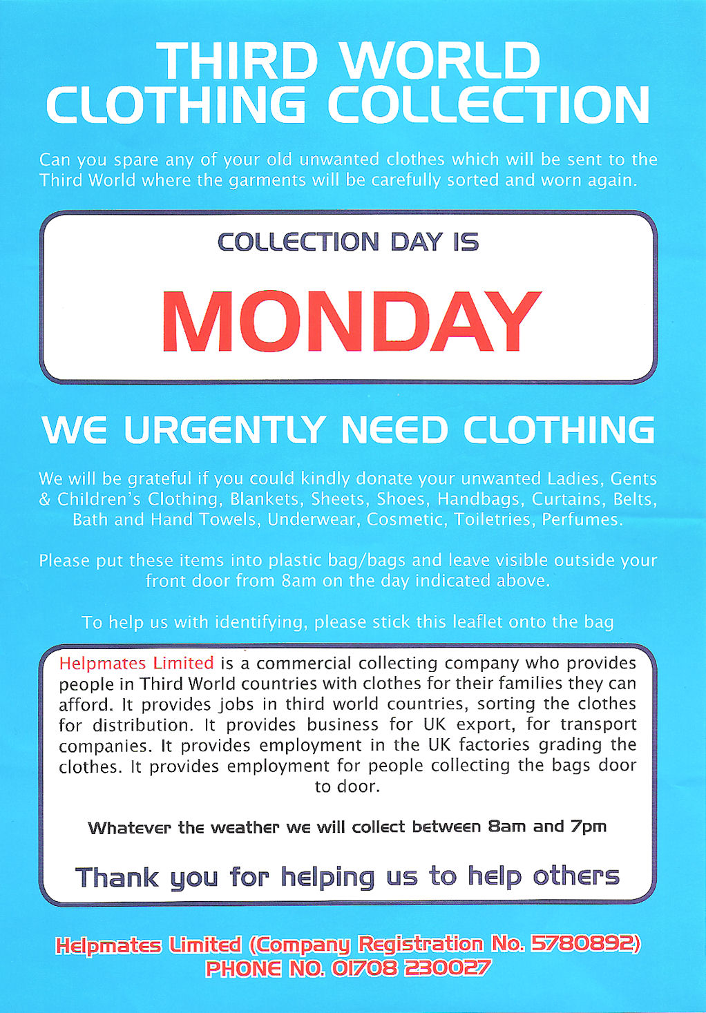 ══════════════════════════════════════ These leaflets are from scans of 'good cause collection' leaflets delivered in our neighbourhood. I've added factual information and useful links so people can decide whether to give clothing and other stuff to the collection companies. ══════════════════════════════════════ The wording of this leaflet makes clear that Helpmates Ltd is "a commercial collecting company". Which is presumably intended to avoid the need for a licence. Companies House Register showed (on 1 May 2011) that Helpmates Limited - with the company registration number on the leaflet - was incorporated on 13 April 2006. Its status was shown as "active" and its business as: "Wholesale of clothing and footwear". Its accounts and other returns were then up-to-date. A Google search (also on 29/01/2011) showed several websites with criticisms of Helpmates Ltd as a company running a commercial recycling business, distributing leaflets which stressed the "good cause" aspect of its activities. ______________________________________________ Links § The helpful website suggests that it may be misleading for a commercial collector to use the word "donate". § Online search of Companies House Register . § Click here to see my set of 'good cause collection' leaflets. § Helpmates Ltd was discussed by Andrew Penman of the Daily Mirror on 31 January 2008. § There's nothing new about businesses which make house to house recycling collections. See Wikipedia link to Rag and bone man . Of course, this aspect has been sentimentalised. ( 1 ) ( 2 )